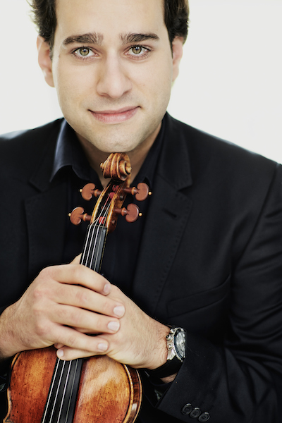 photo by Harald Hoffman